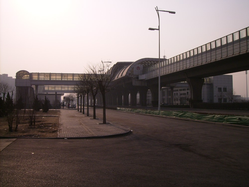 Liuyuan Terminus of Tianjin Metro Line 1